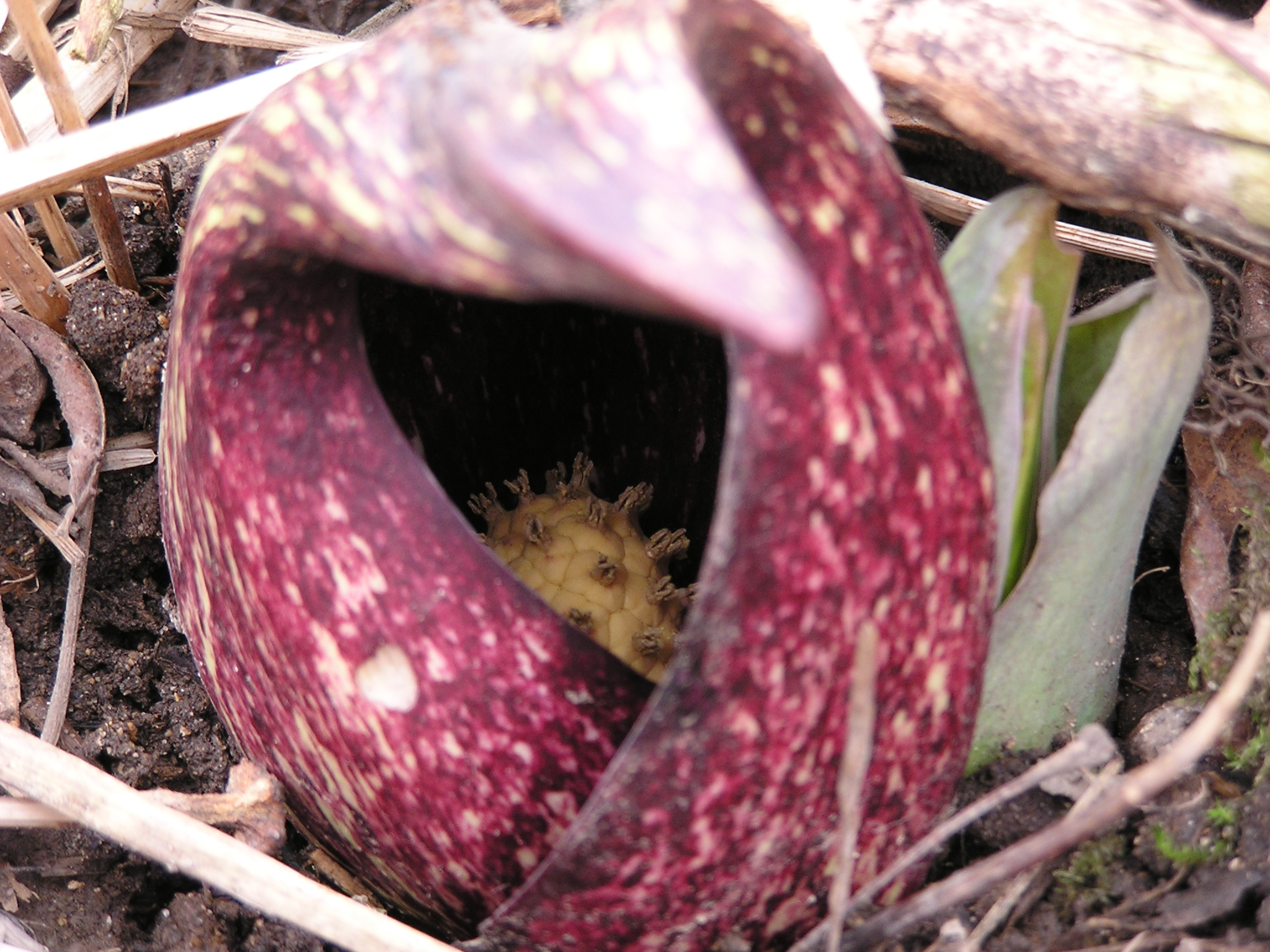 Symplocarpus foetidus showing spadix under the "hood"